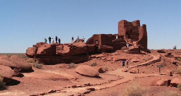 Wukoki Rins Complex, Wupatki National Monument, AZ